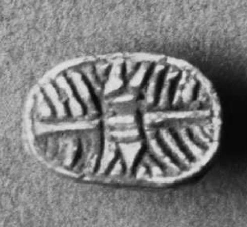 Scaraboid seal from Monte Prama (Sardinia)